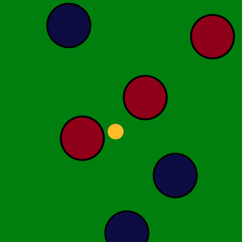 Petanque scoring example: two points scored